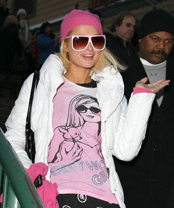 Paris Hilton at the 2008 Sundance Film Festival, in Utah, United States.